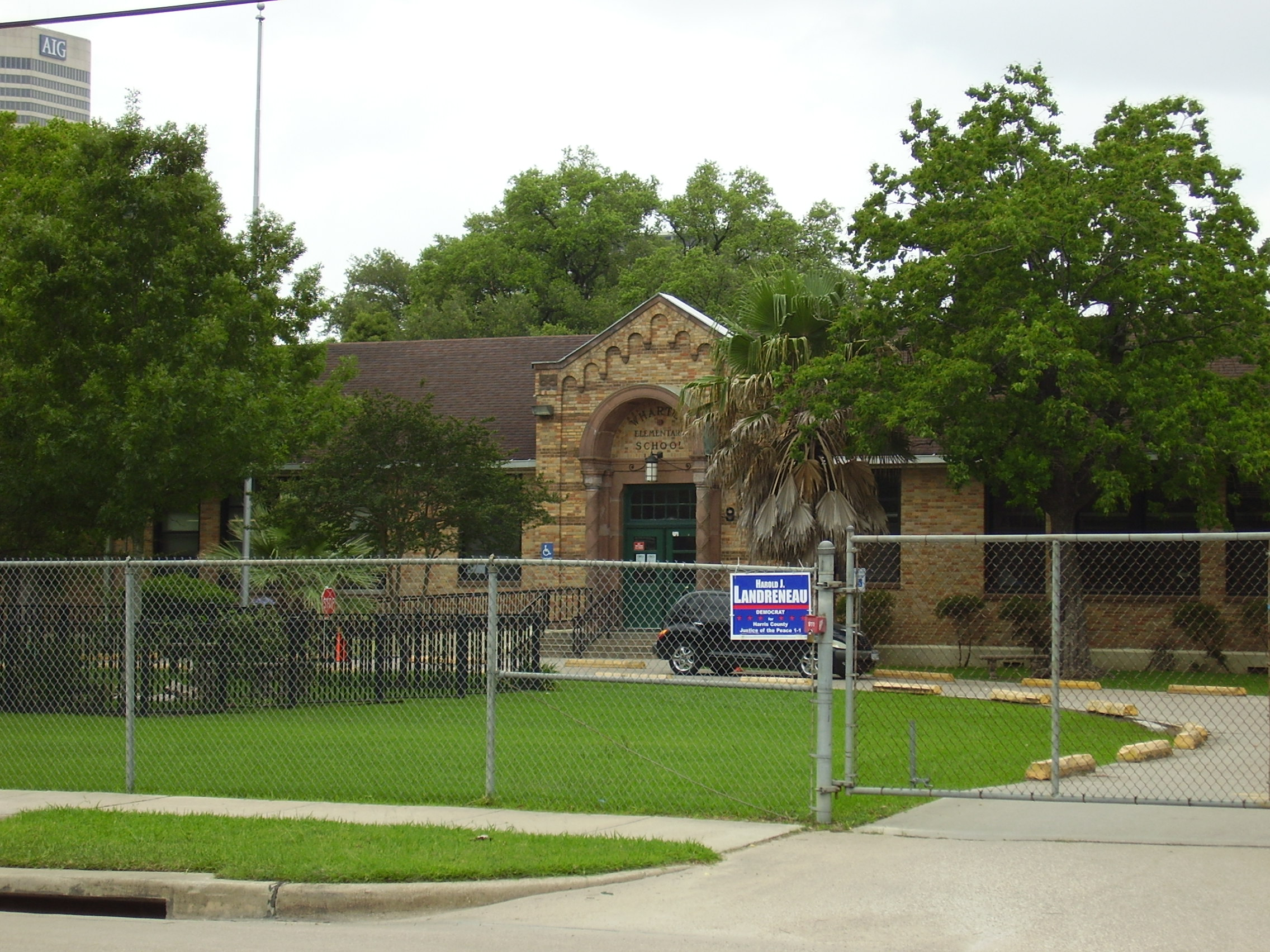 William H. Wharton K-8 School